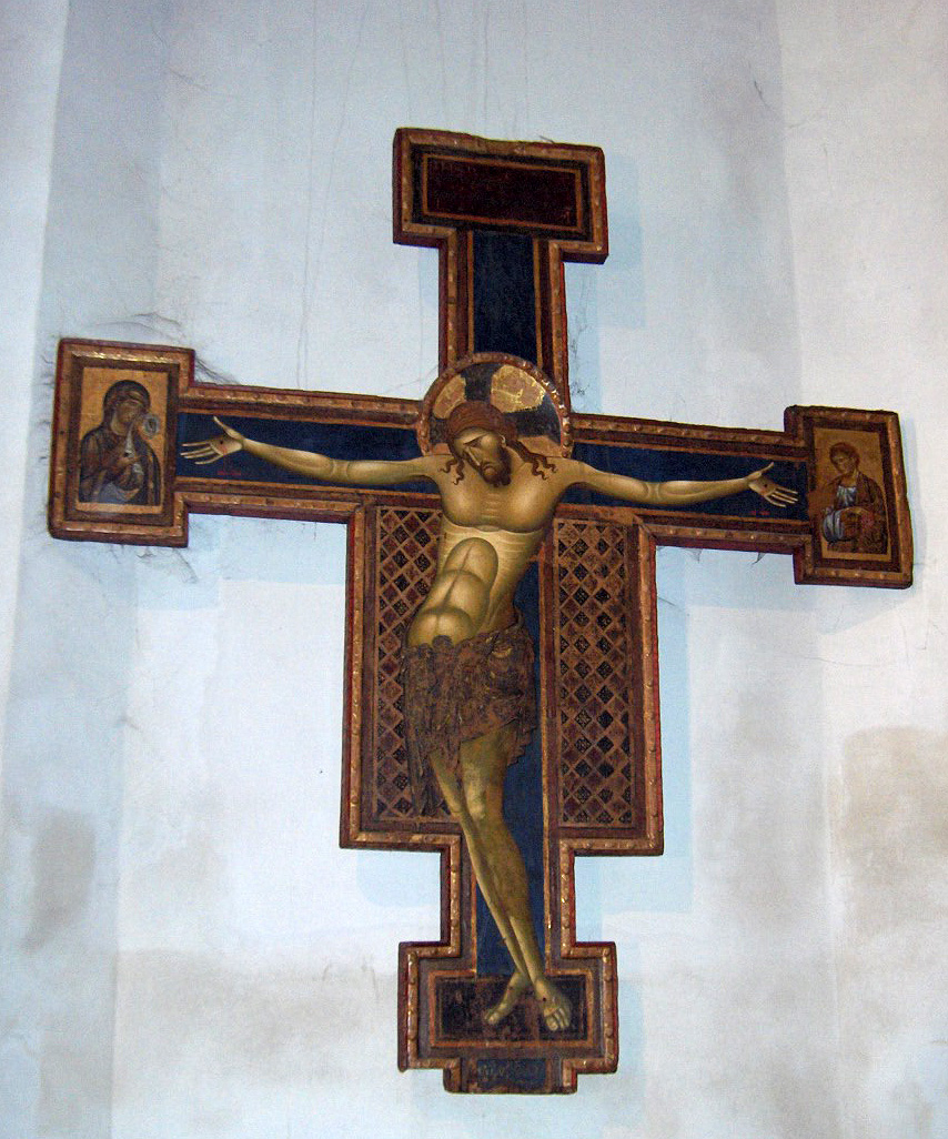 Crucifix (1250) by Giunta Pisano; left transept; Basilica of Saint Dominic, Bologna, Italy